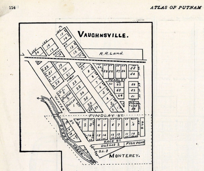 1895 Atlas entry for Vaughnsville of Putnam County, Ohio